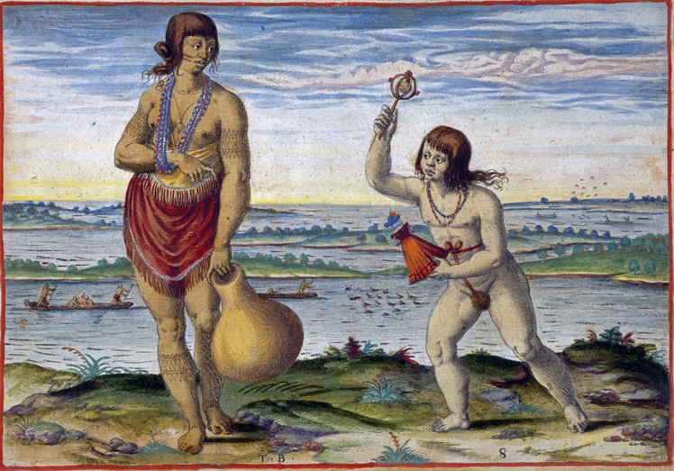 Watercolor Painting of the Croaton and Sectoan Peoples, part of the Carolina Algonquin